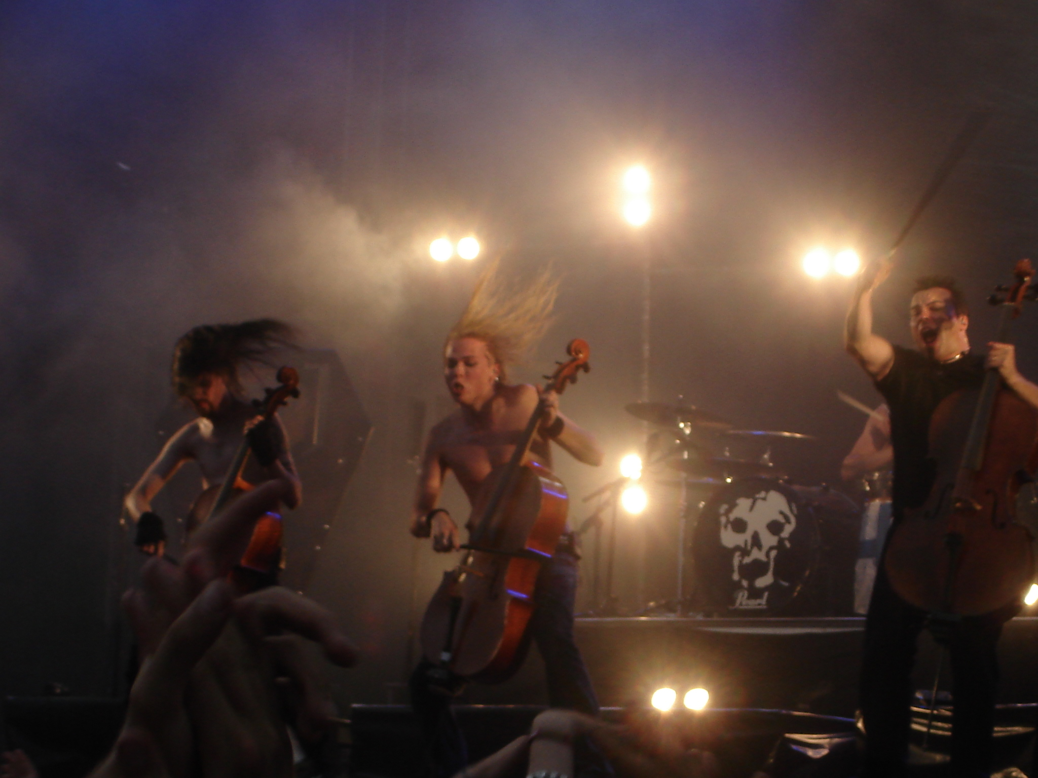 Apocalyptica beim Hurricane-Festival 2006 auf der Bluestage